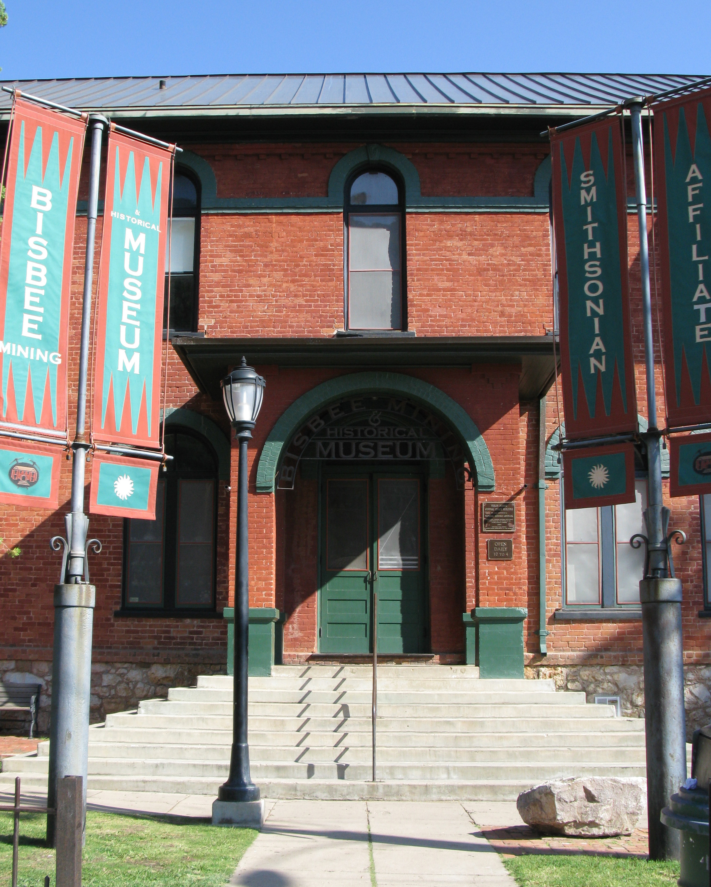 The Phelps Dodge General Office Building — present day Bisbee Mining and Historical Museum, in Bisbee, Arizona. The building was the headquarters of the Phelps Dodge (copper) mining company from 1896 to 1961.